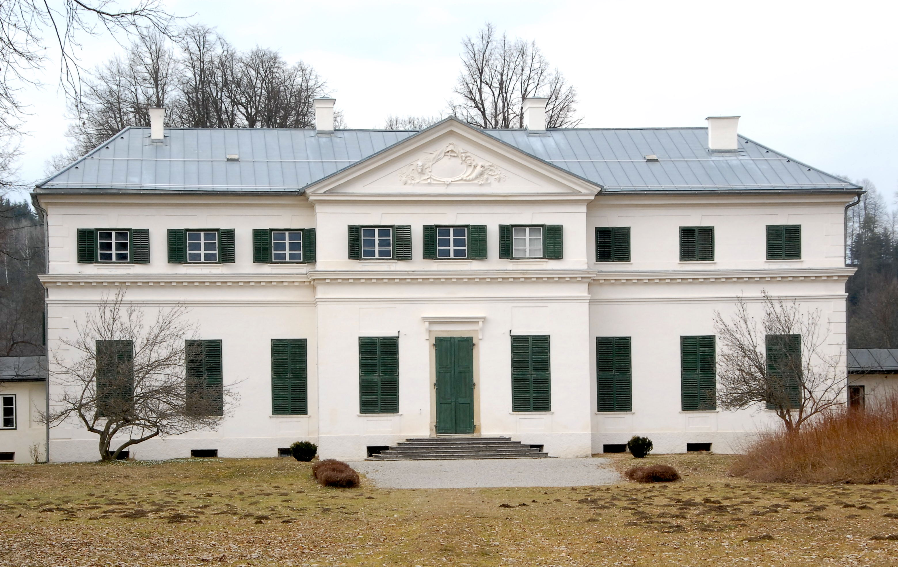 South view at castle Rosegg, market town Rosegg, district Villach Land, Carinthia, Austria, EU